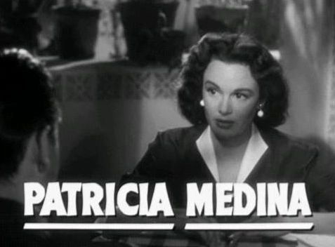 Screenshot of Patricia Medina from the film Plunder of the Sun